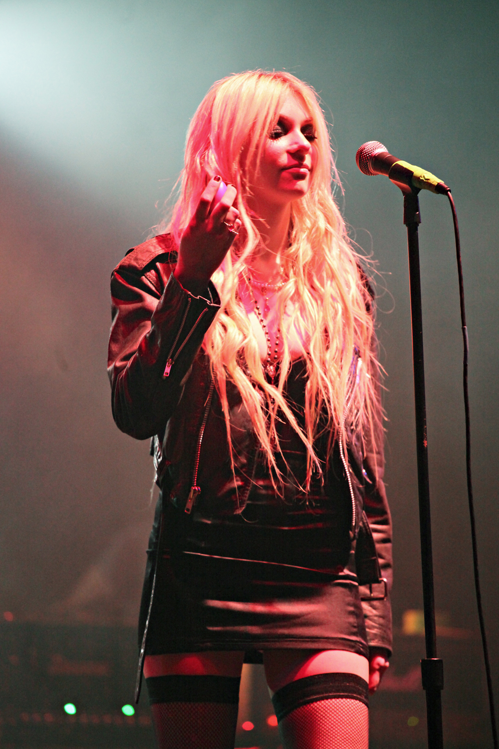 Warped Tour Press Conference Taylor Momsen Photos By: Karen Curley